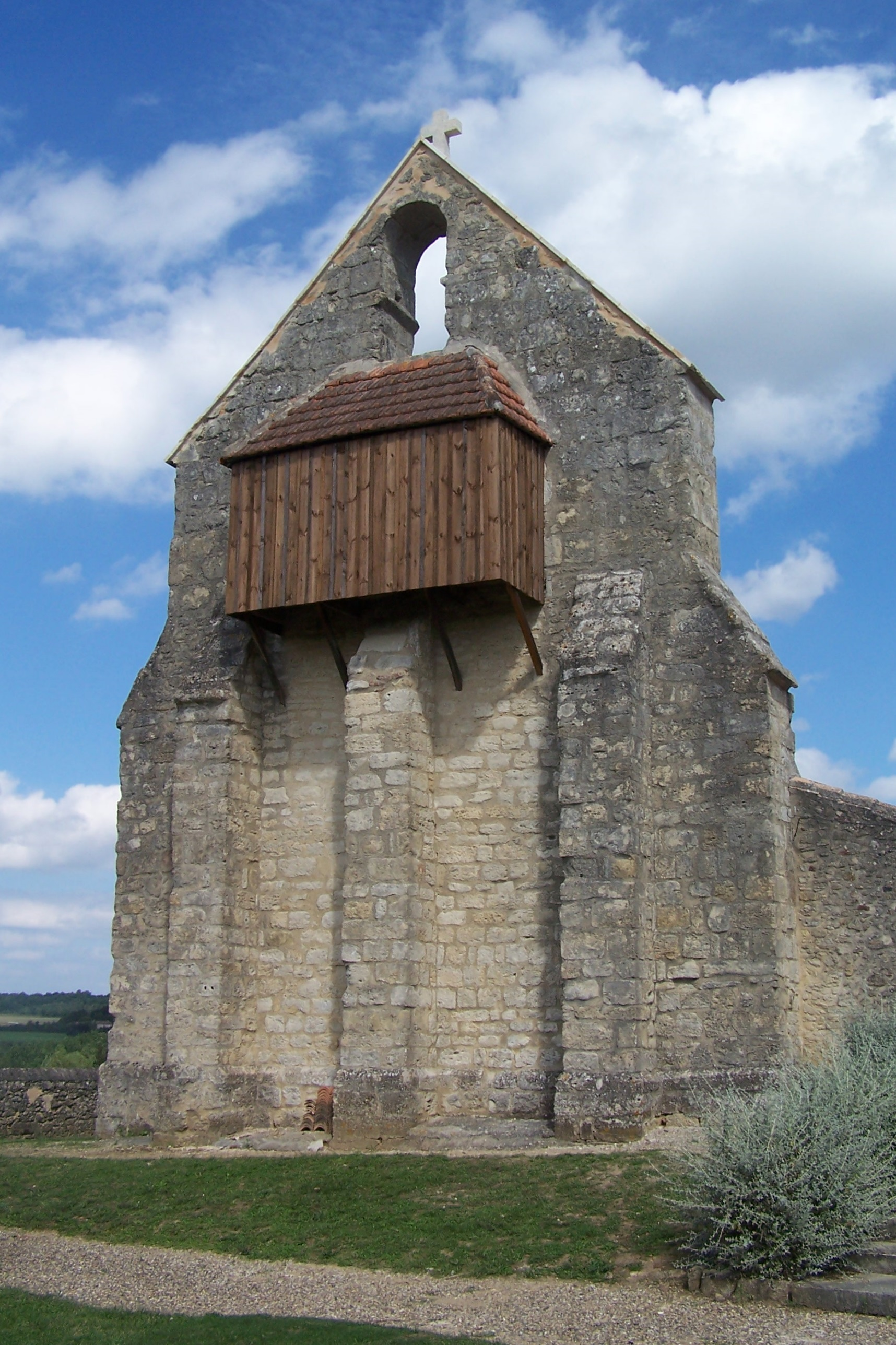 Church of Morizès (Gironde, France)